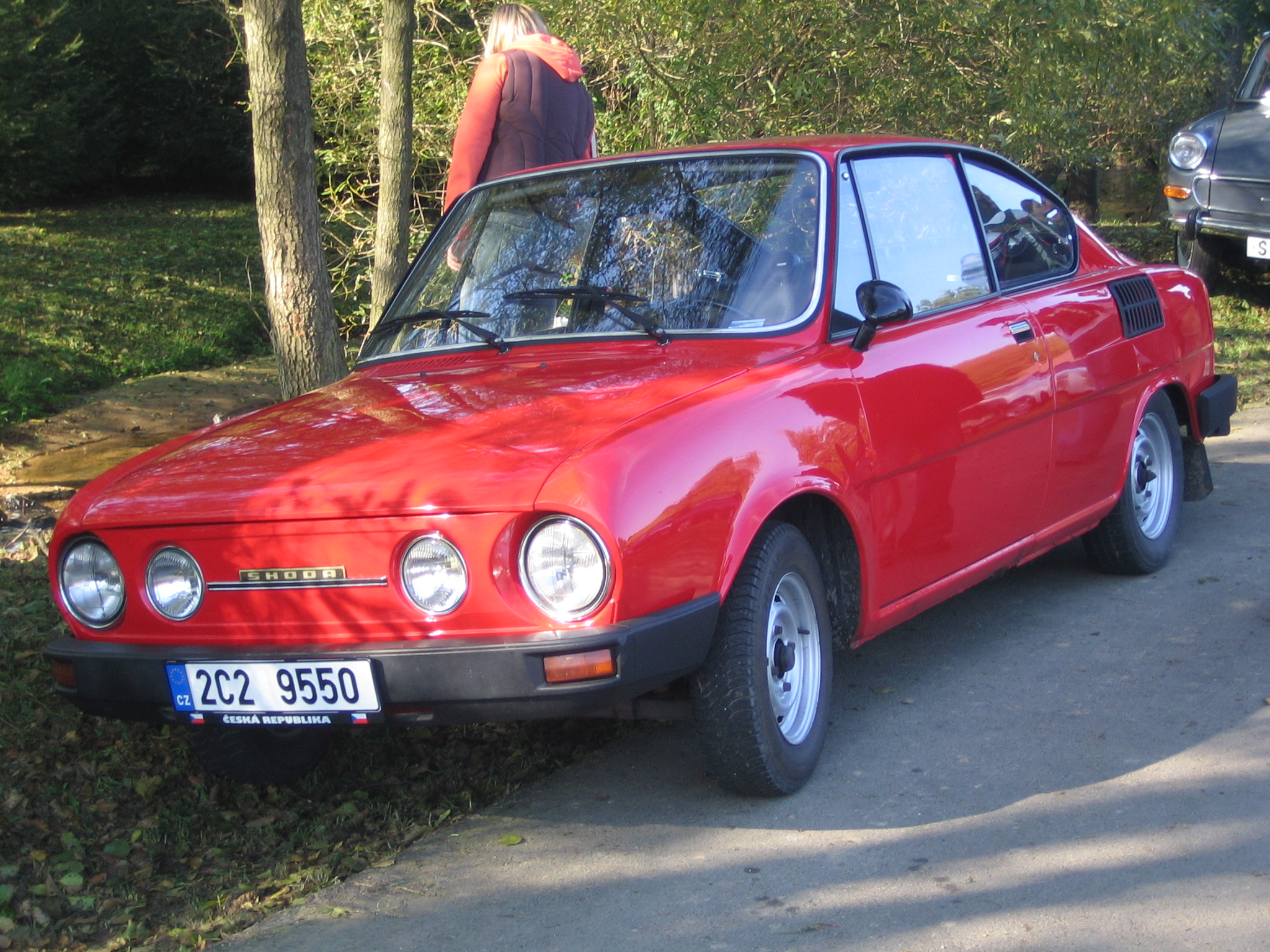 Škoda 110R Facelift